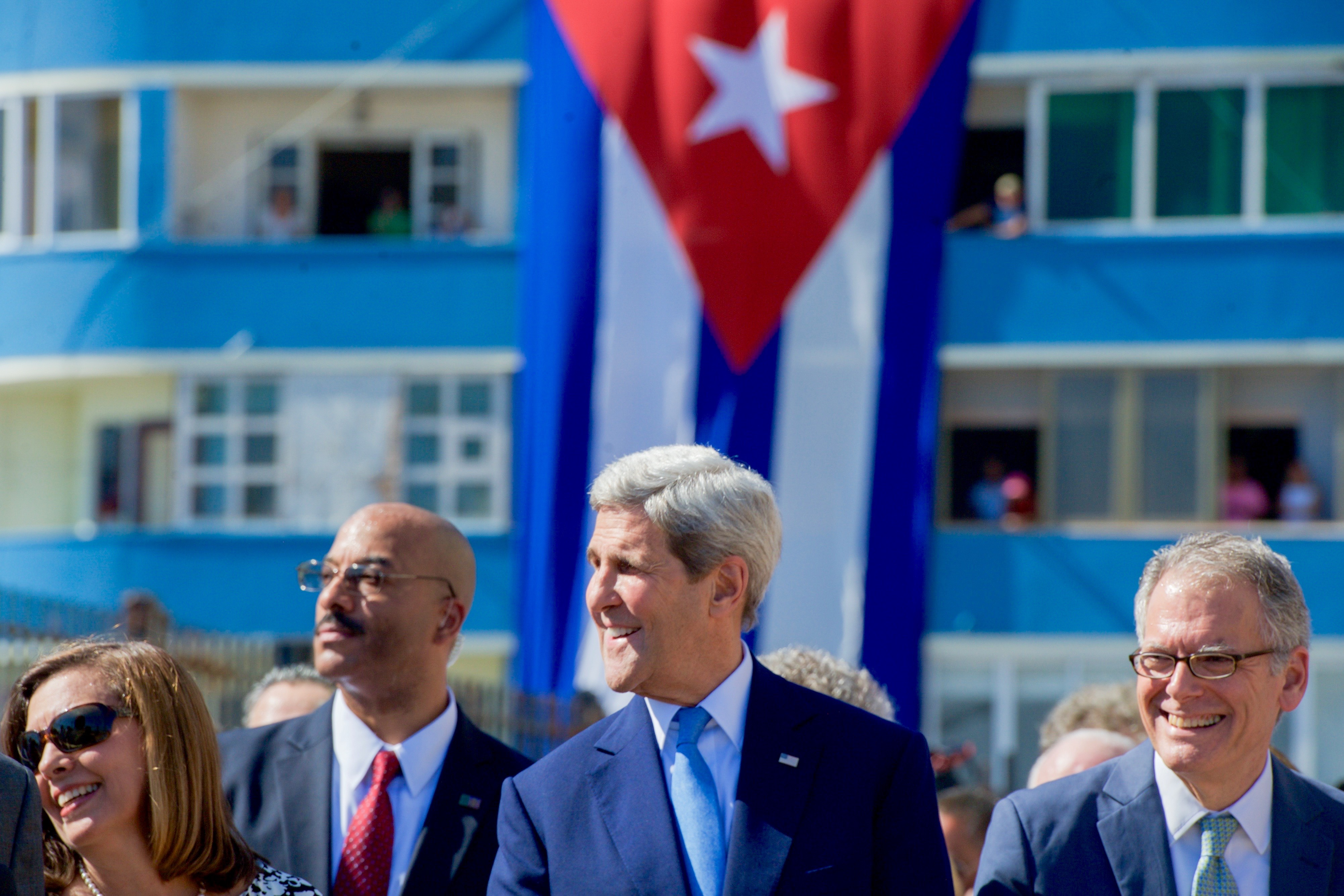 U.S. Secretary of State John Kerry laughs as the crowd across the street yells "viva Cuba" at the end of the playing of the Cuban national anthem at the flag-raising ceremony at the newly re-opened U.S. Embassy in Havana, Cuba, on August 14, 2015. [State Department photo/ Public Domain]